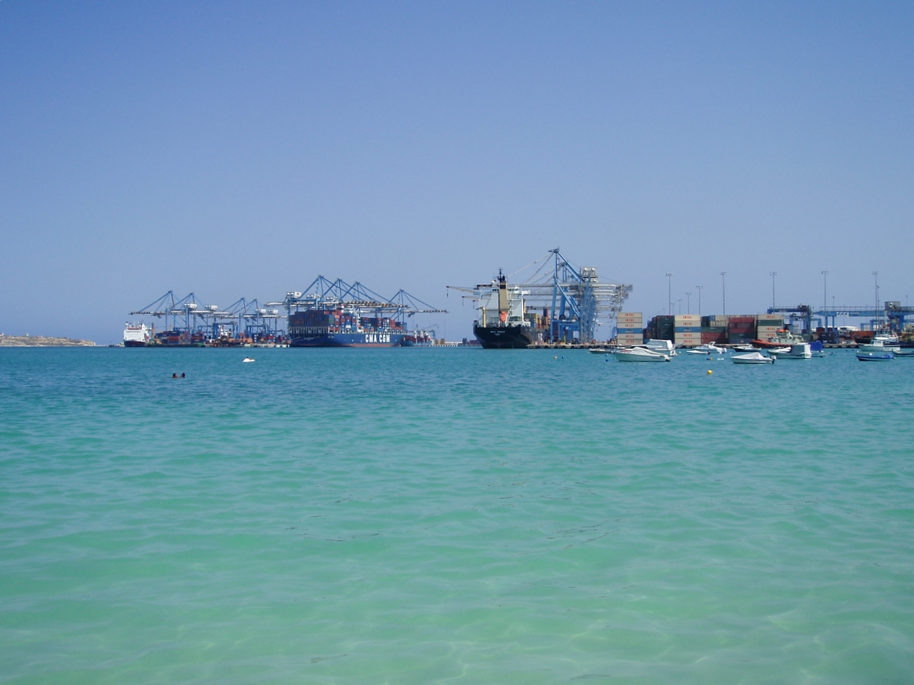 The following is the author's description of the photograph quoted directly from the photograph's Flickr page."Malta Freeport from Pretty Bay at Birzebbuga "